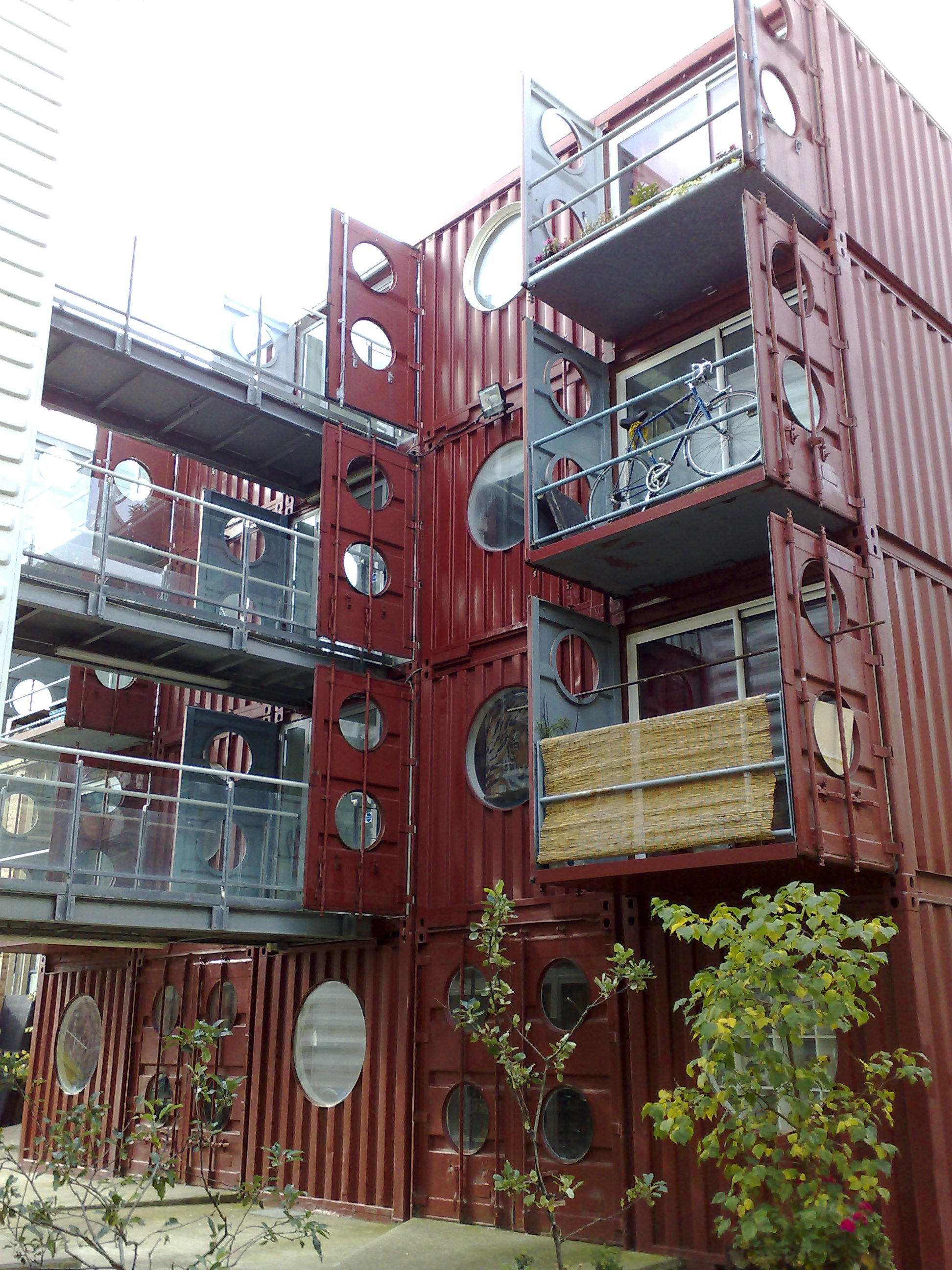 Container building, see also container-city-one